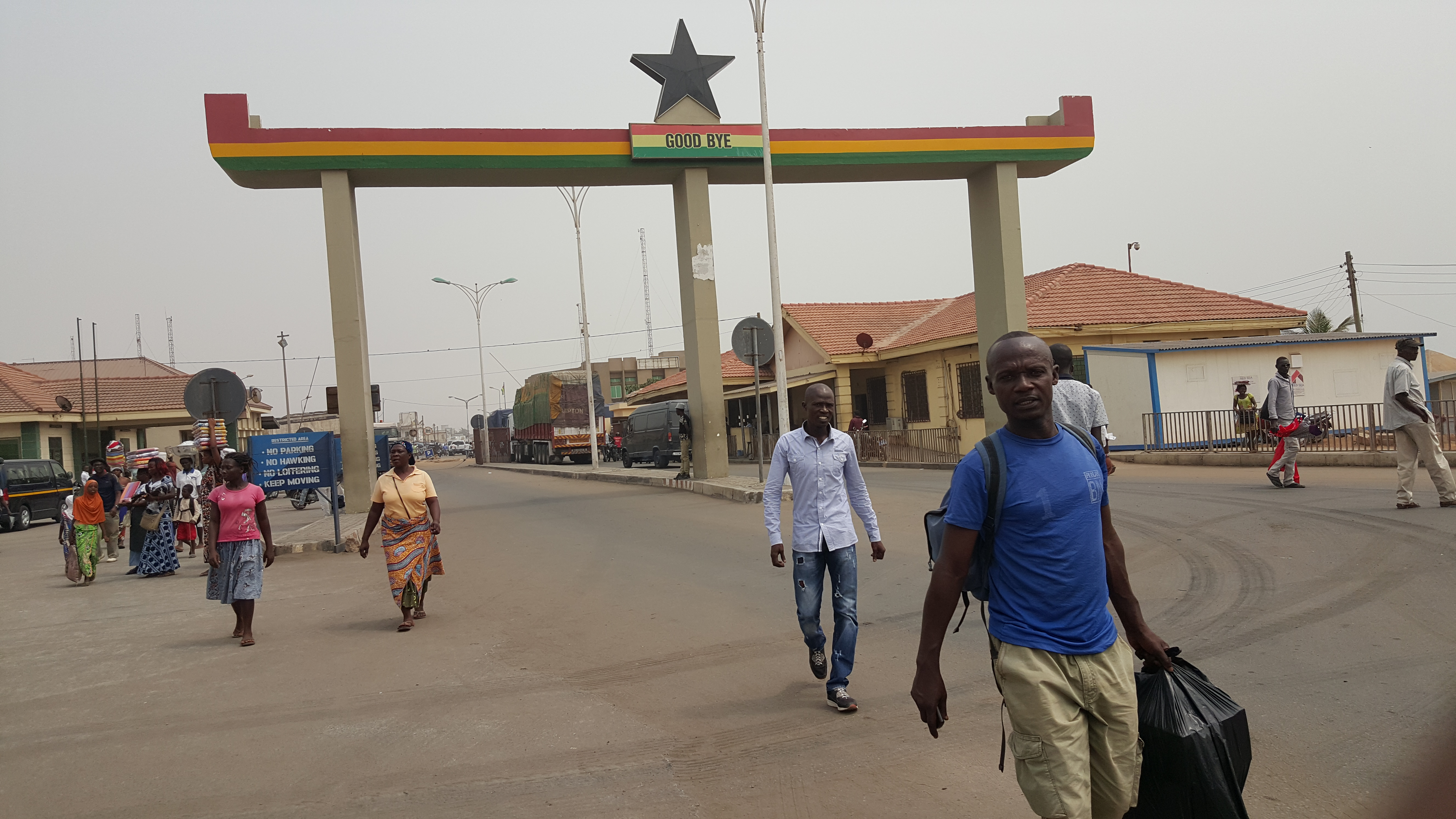 Ghana-Togo border at Aflao in 2016